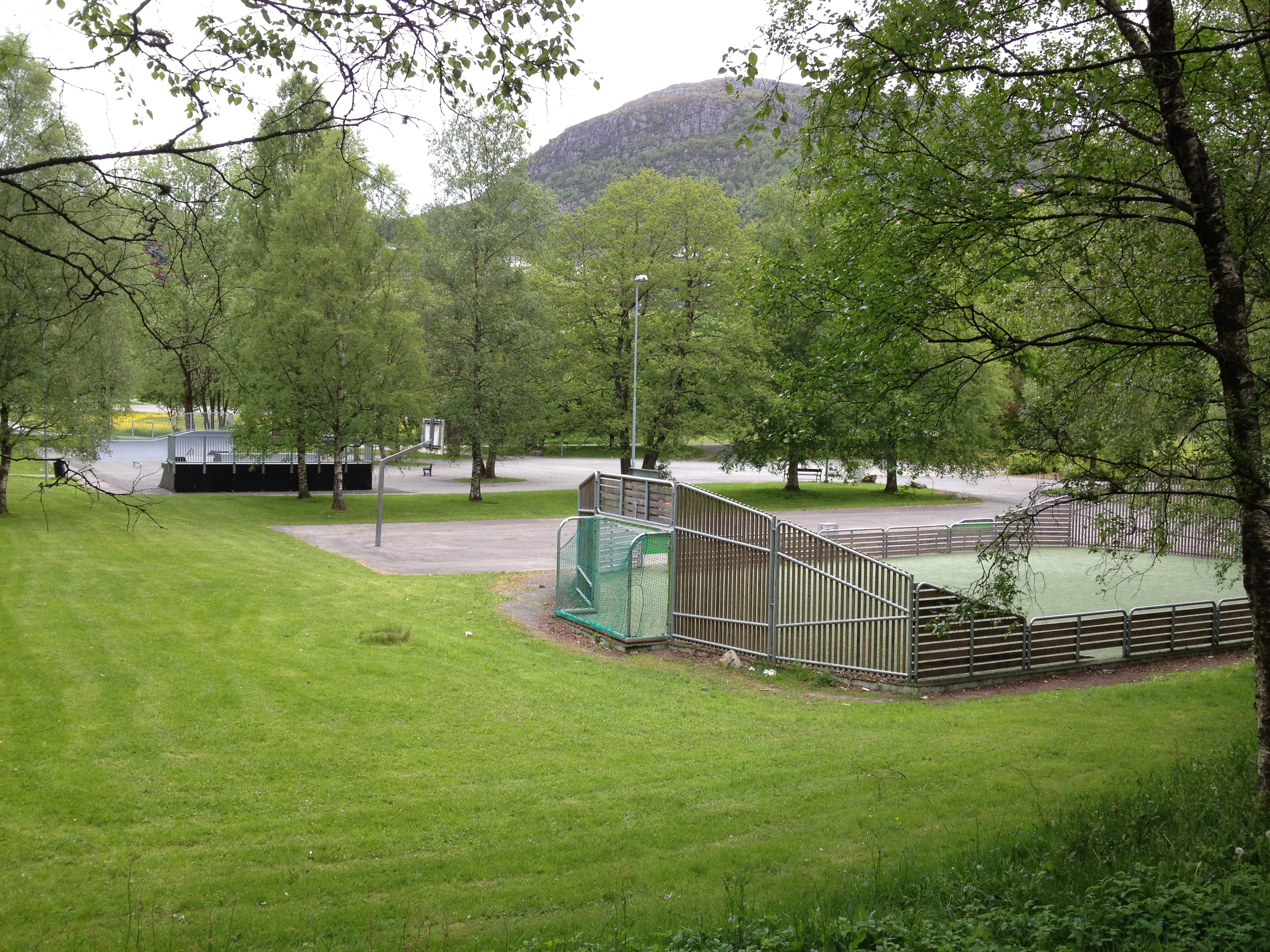 Lynghaugparken a park in Fyllingsdalen, Bergen, Norway